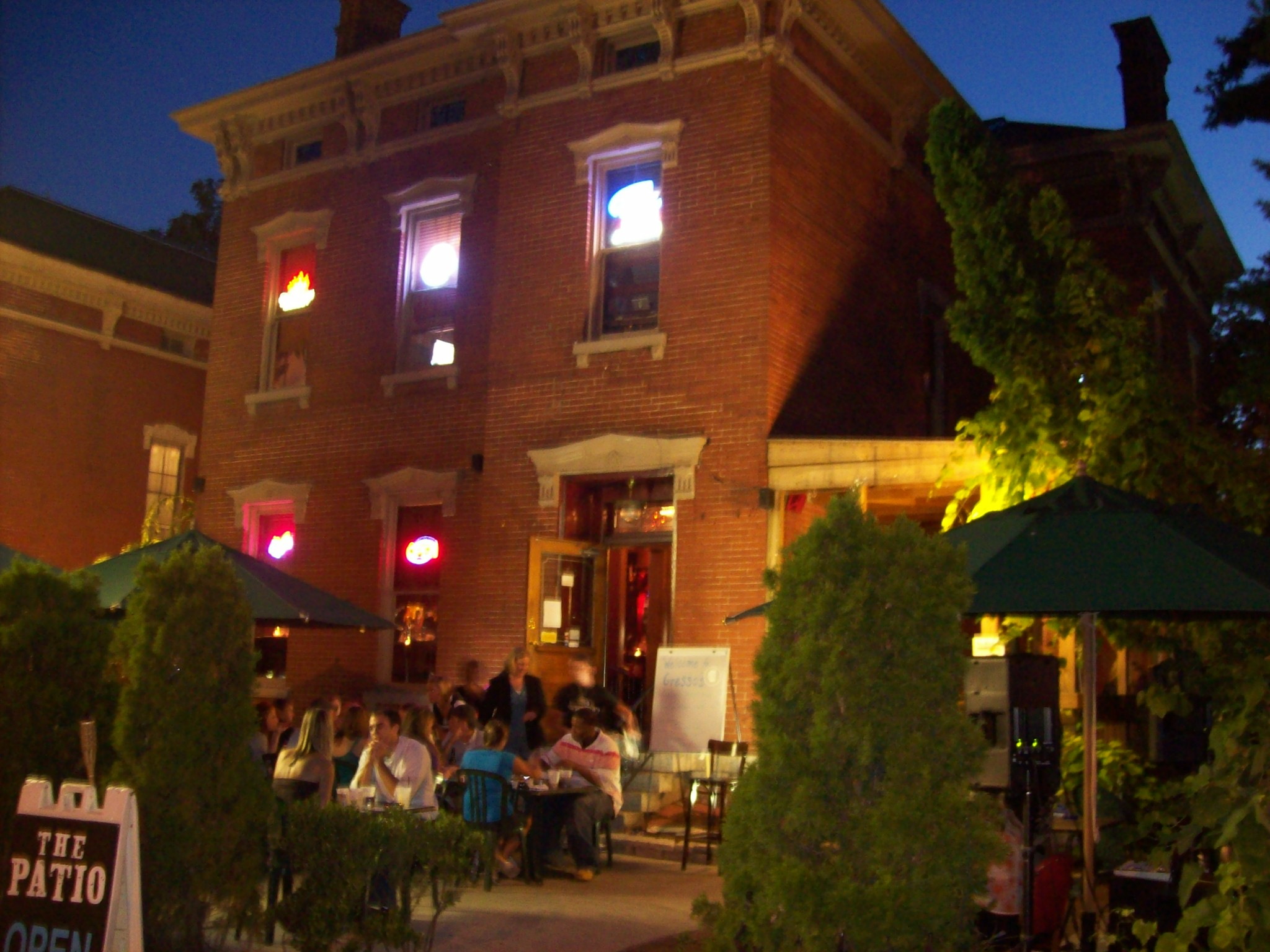 Gressos